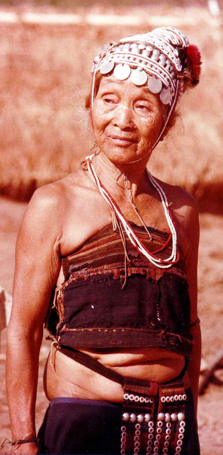 I took this photo in Thailand in 1979.